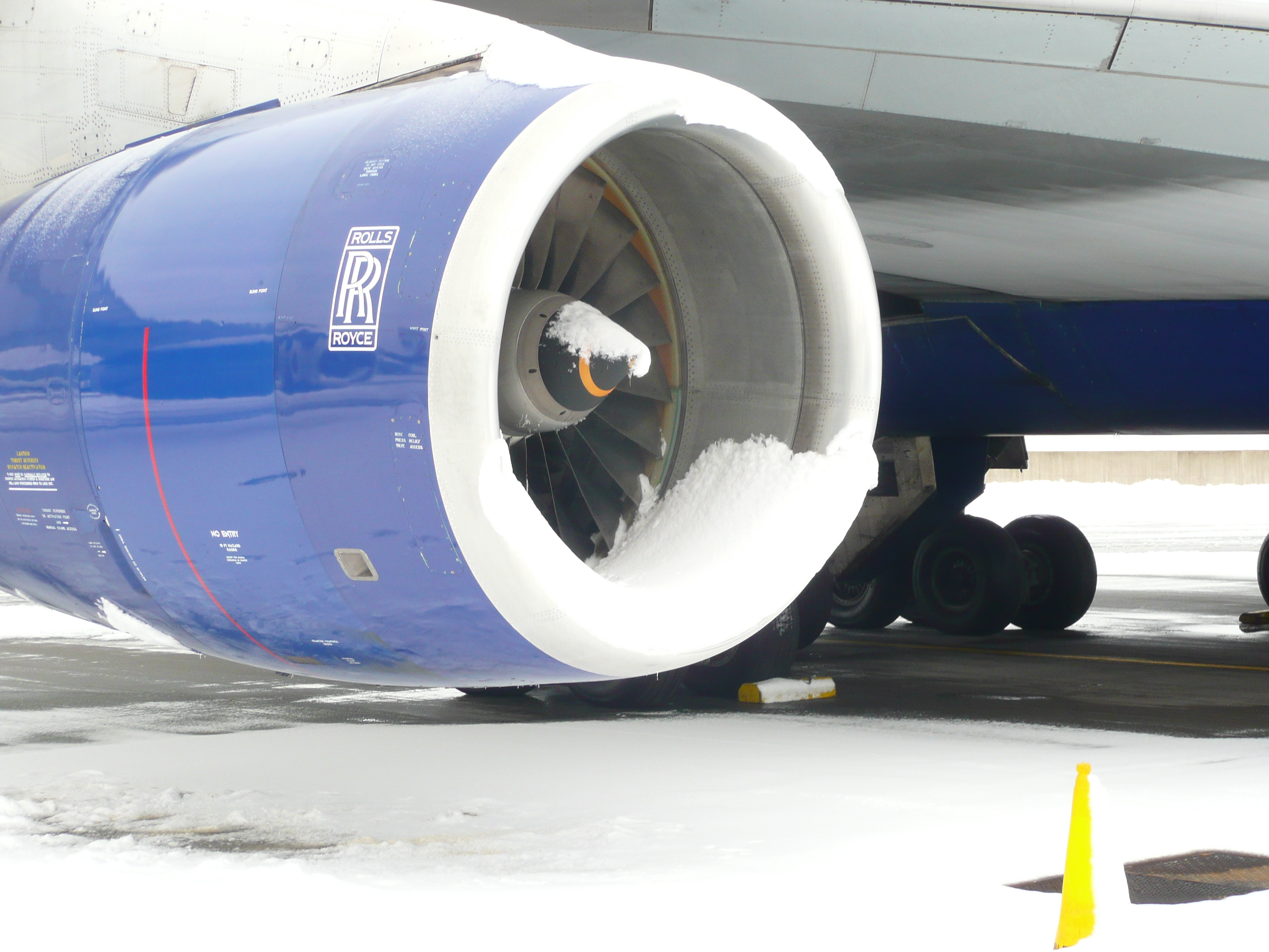 G-BNLE B744 BA with an engine full of the white stuff.